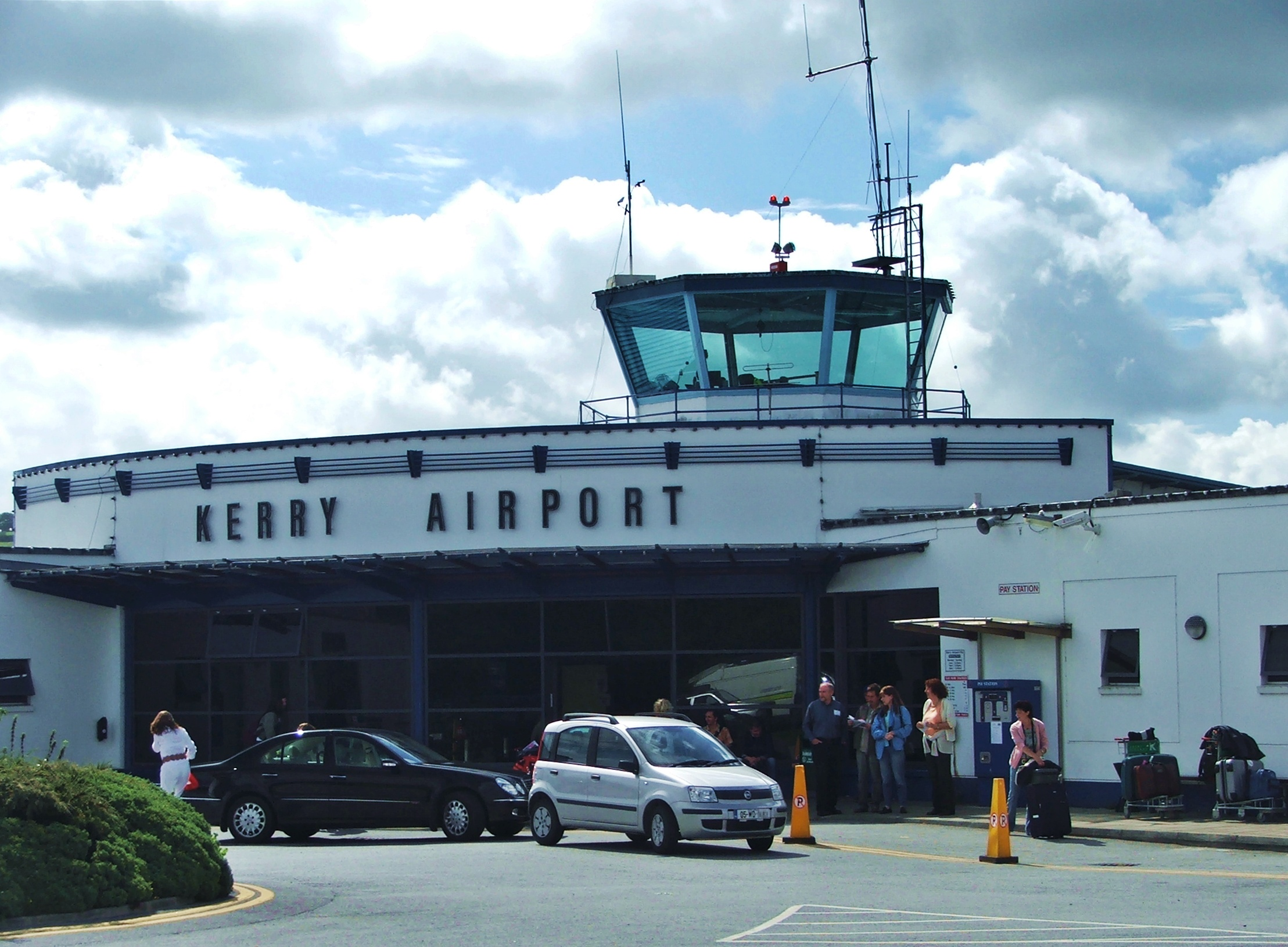 Kerry Airport taken 2005.